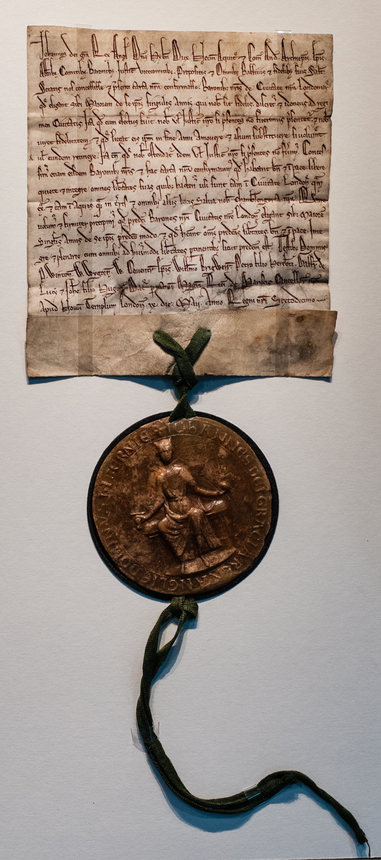 King John's charter granting London the right to elect a mayor, May 19, 1215.